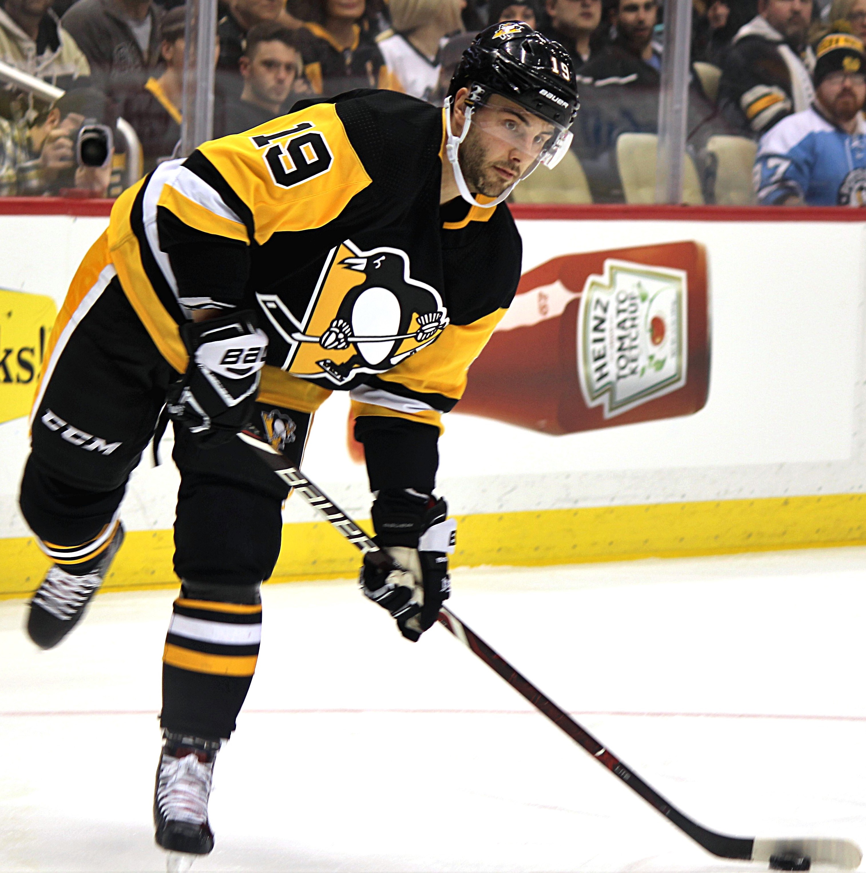 Pittsburgh Penguins forward Derick Brassard during a game against the New York Islanders at PPG Paints Arena in Pittsburgh, PA. Saturday, March 3, 2018.